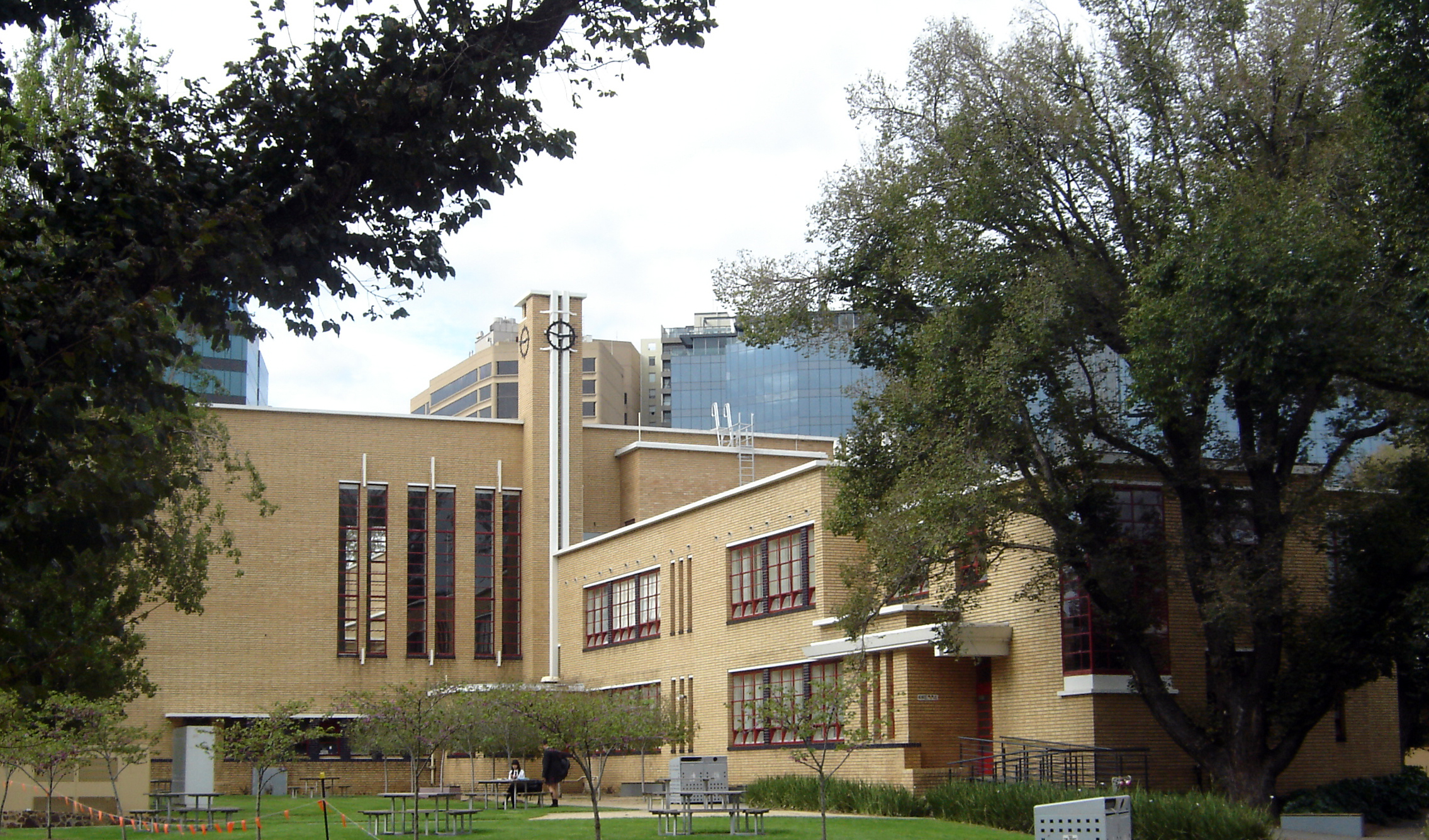 english